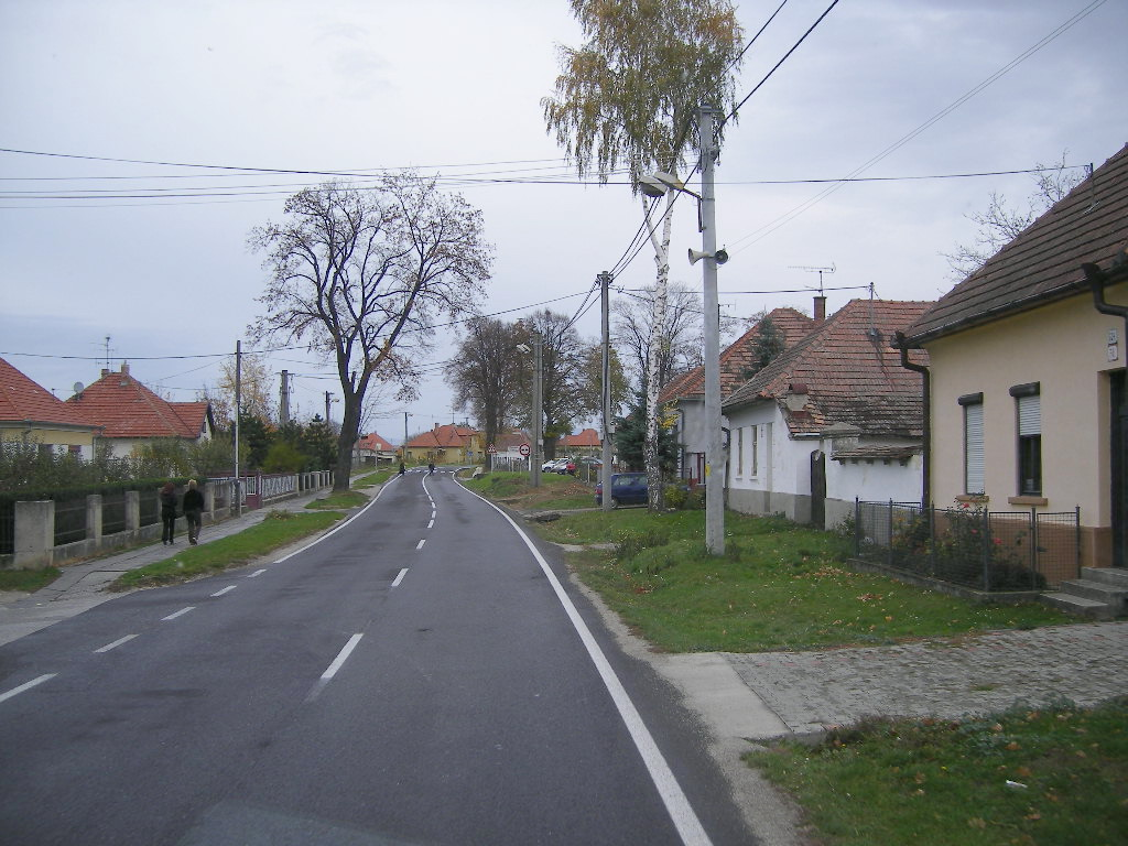 Bošany